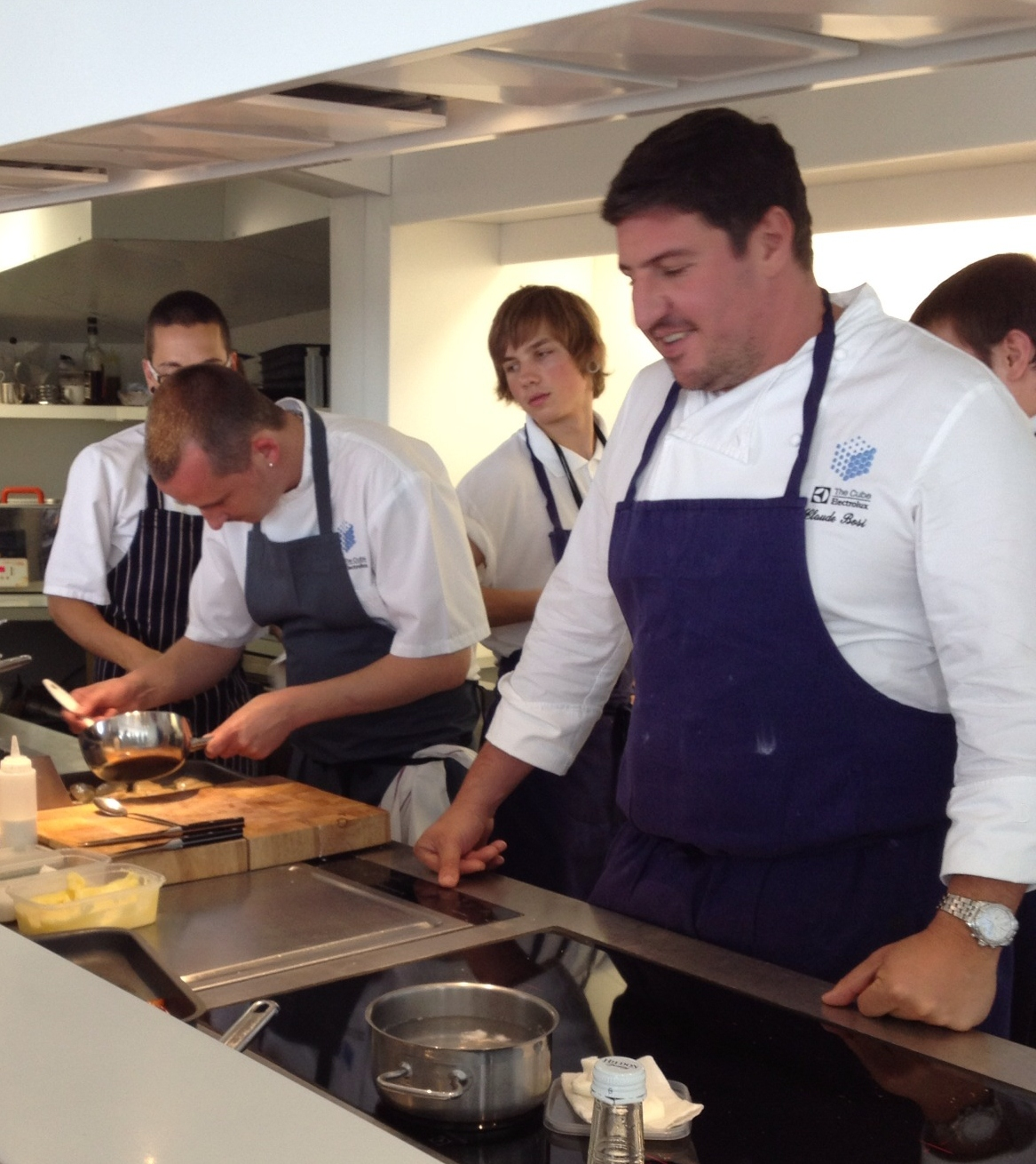 Claude Bosi in the kitchen at The Cube, on top of London's Southbank Centre.